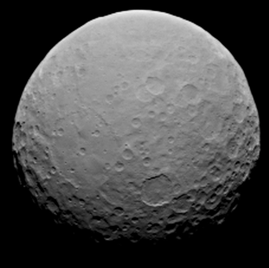 Cropped version of PIA19183. Rotated to place the south towards the bottom of the image.